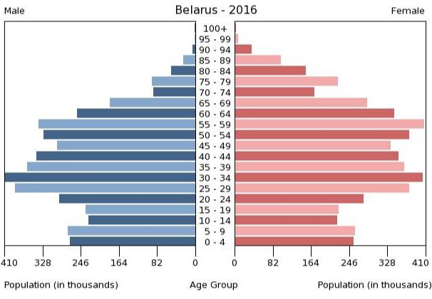 Distribution of the population of Belarus by sex and age ranges.